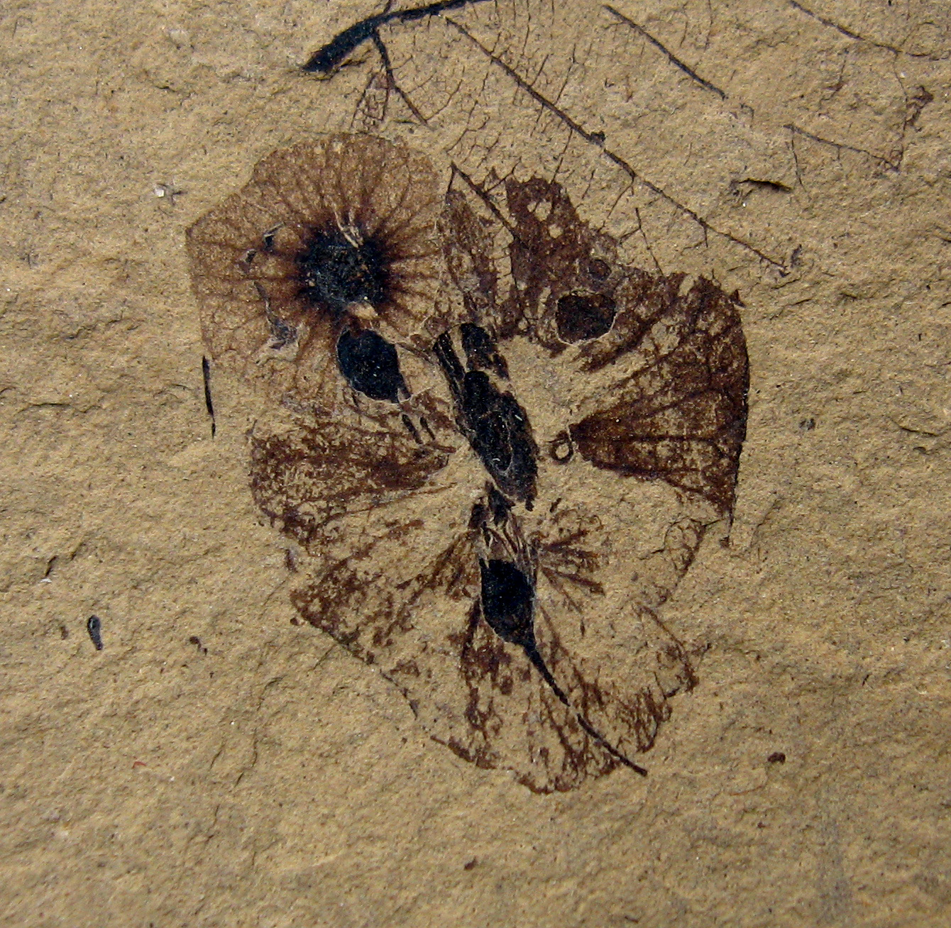 A pair of two Dillhoffia cachensis calyces, a small more complete calyx in teh upper left and a larger calyx in the center. 49.5 Million Years old; Boot Hill", Klondike Mountain Formation, Republic, Washington, USA. Stonerose Interpretive Center Collection # SR 92-17-20.